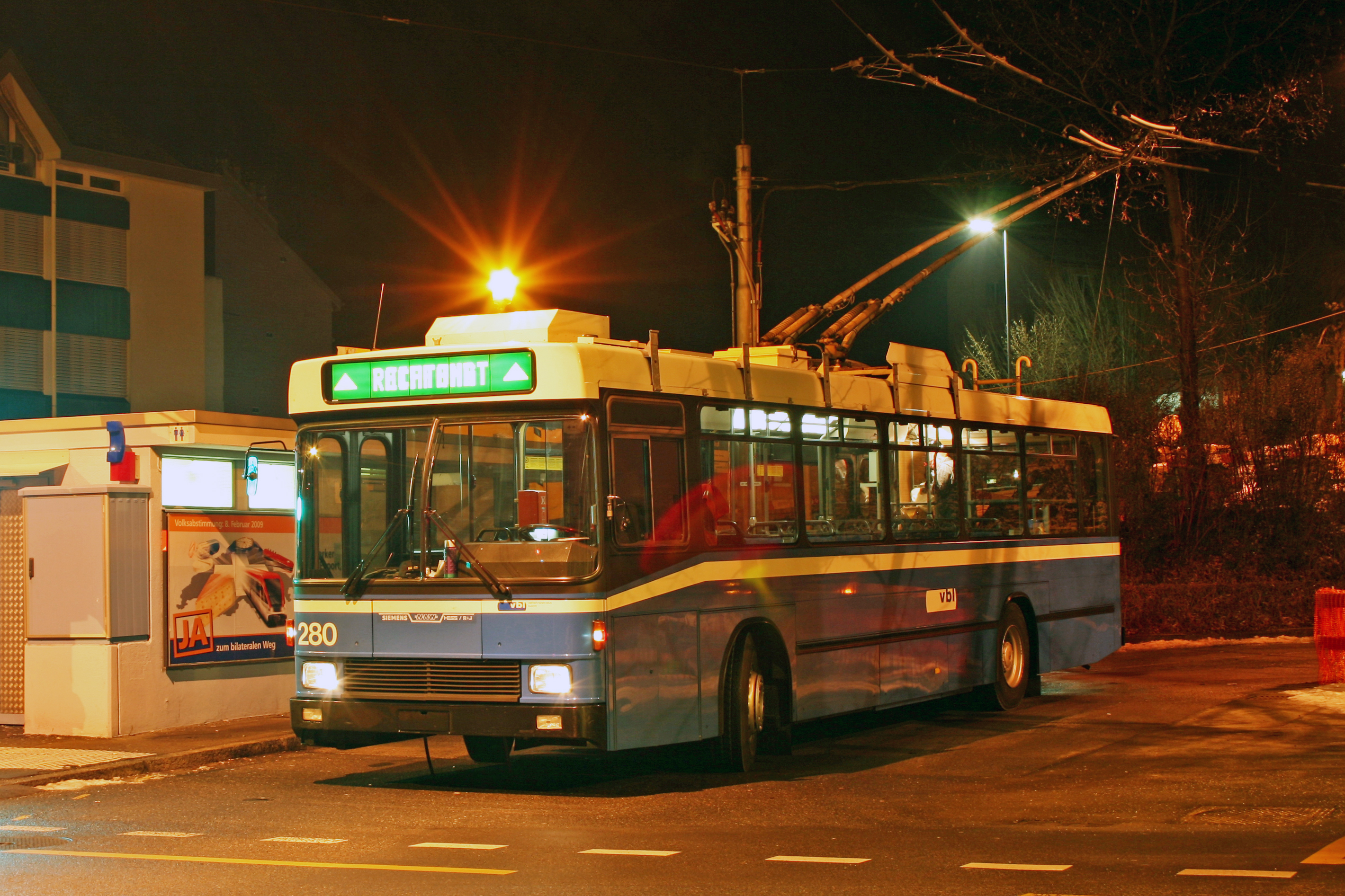 This NAW/Hess/Siemen BT5-25 Trolleybus is used to de-ice Lucerne's Trolleybus wires on cold winterdays.